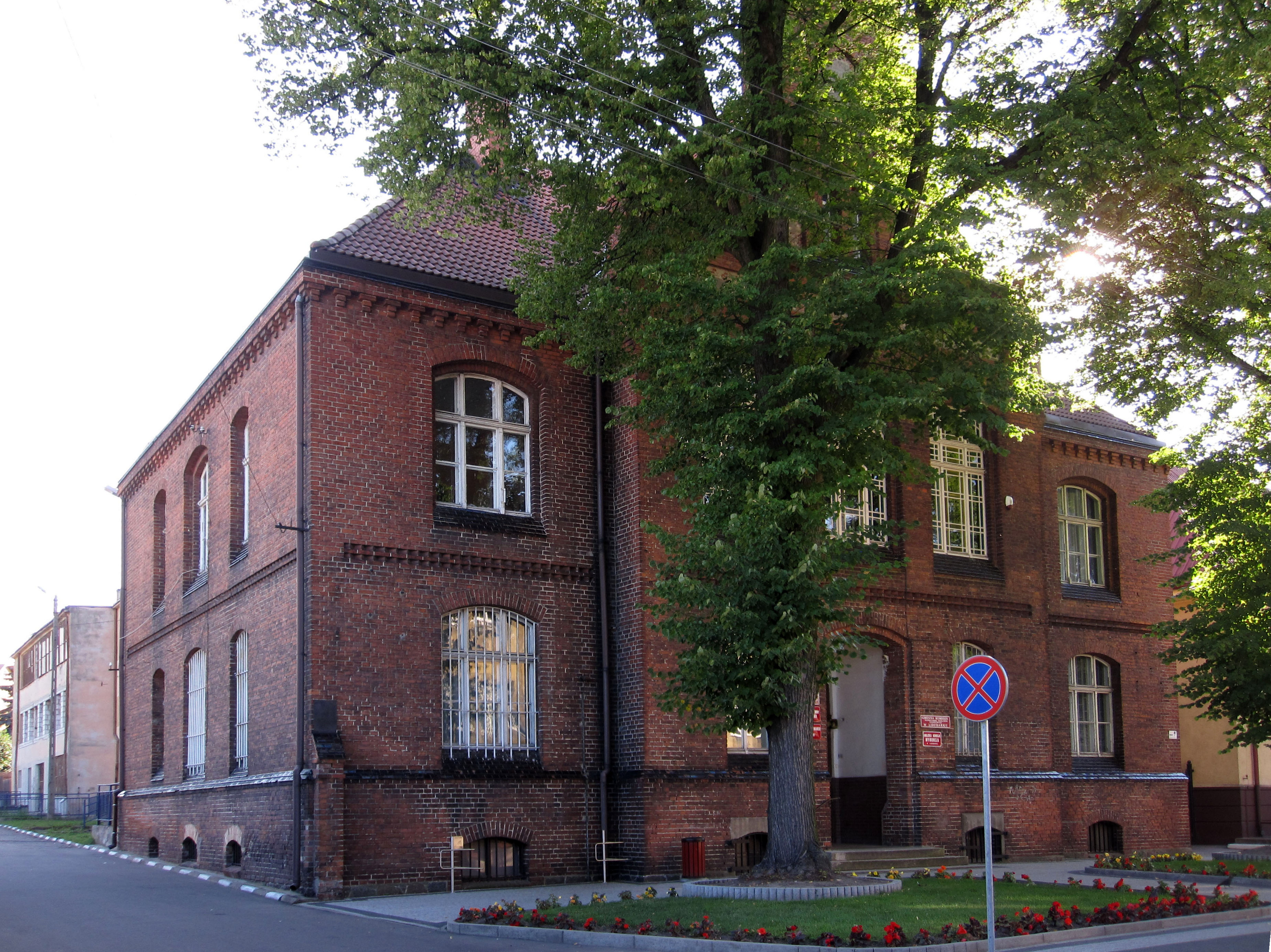 Lidzbark - City Hall